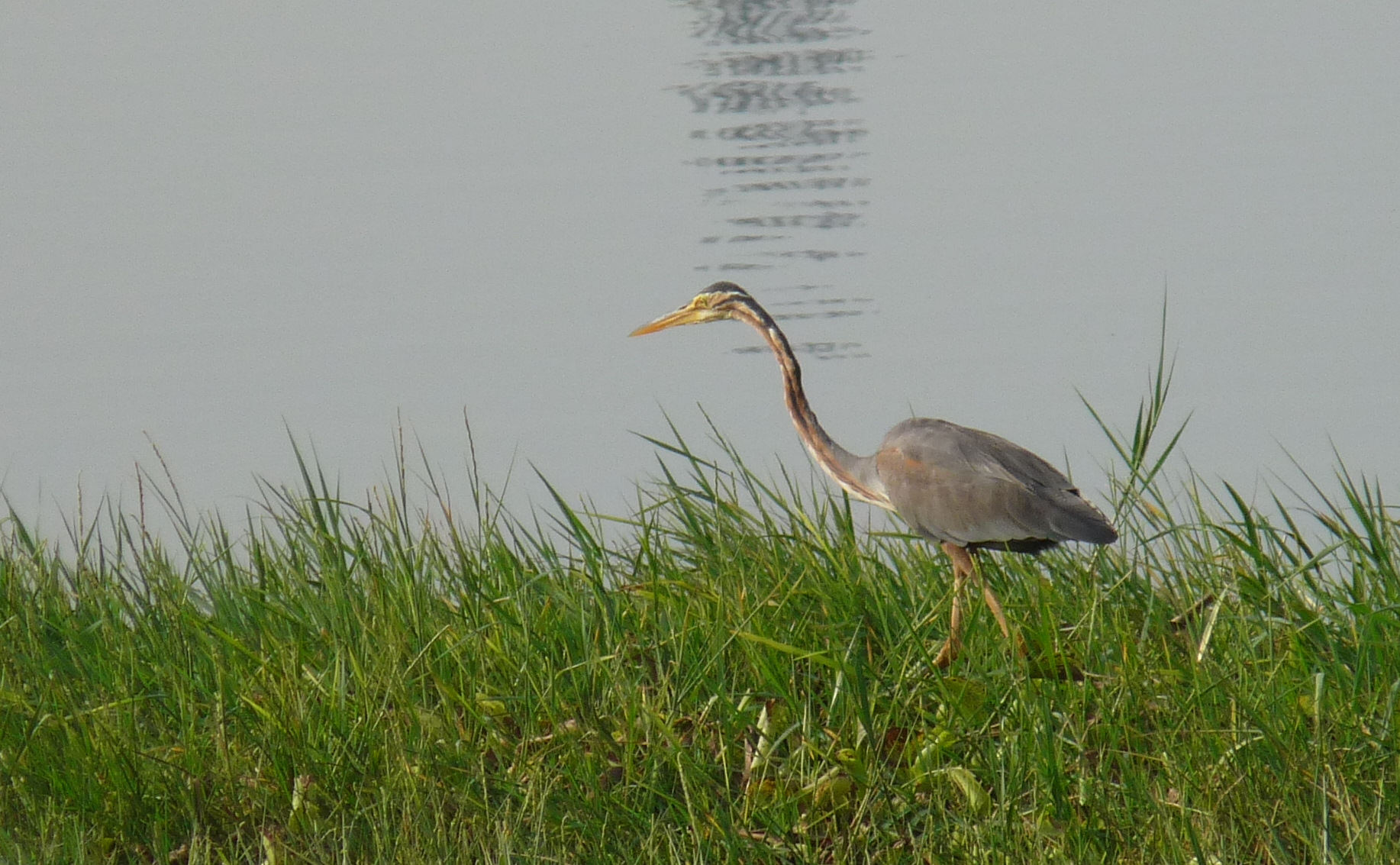 Purple Heron - Ardea purpurea